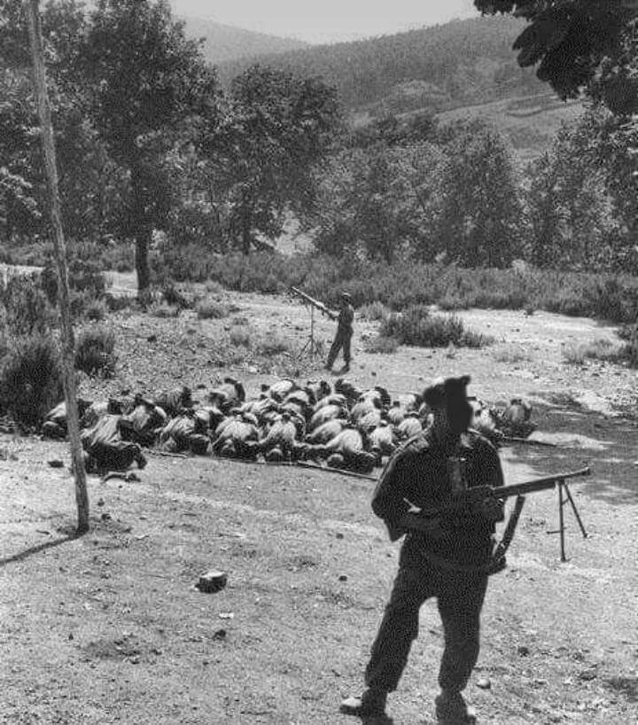 Fear Prayer: A group of Algerian mujahidin praying during the war against French colonialism (1954 -1962) Prière de la peur: Un groupe de moudjahidin algériens priant pendant la guerre contre le colonialisme français (1954 -1962) صلاة الخوف: مجموعة من المجاهدين الجزائريين يصلون صلات الخائف أثناء حربهم ضد المستعمر الفرنسي (1954-1962)